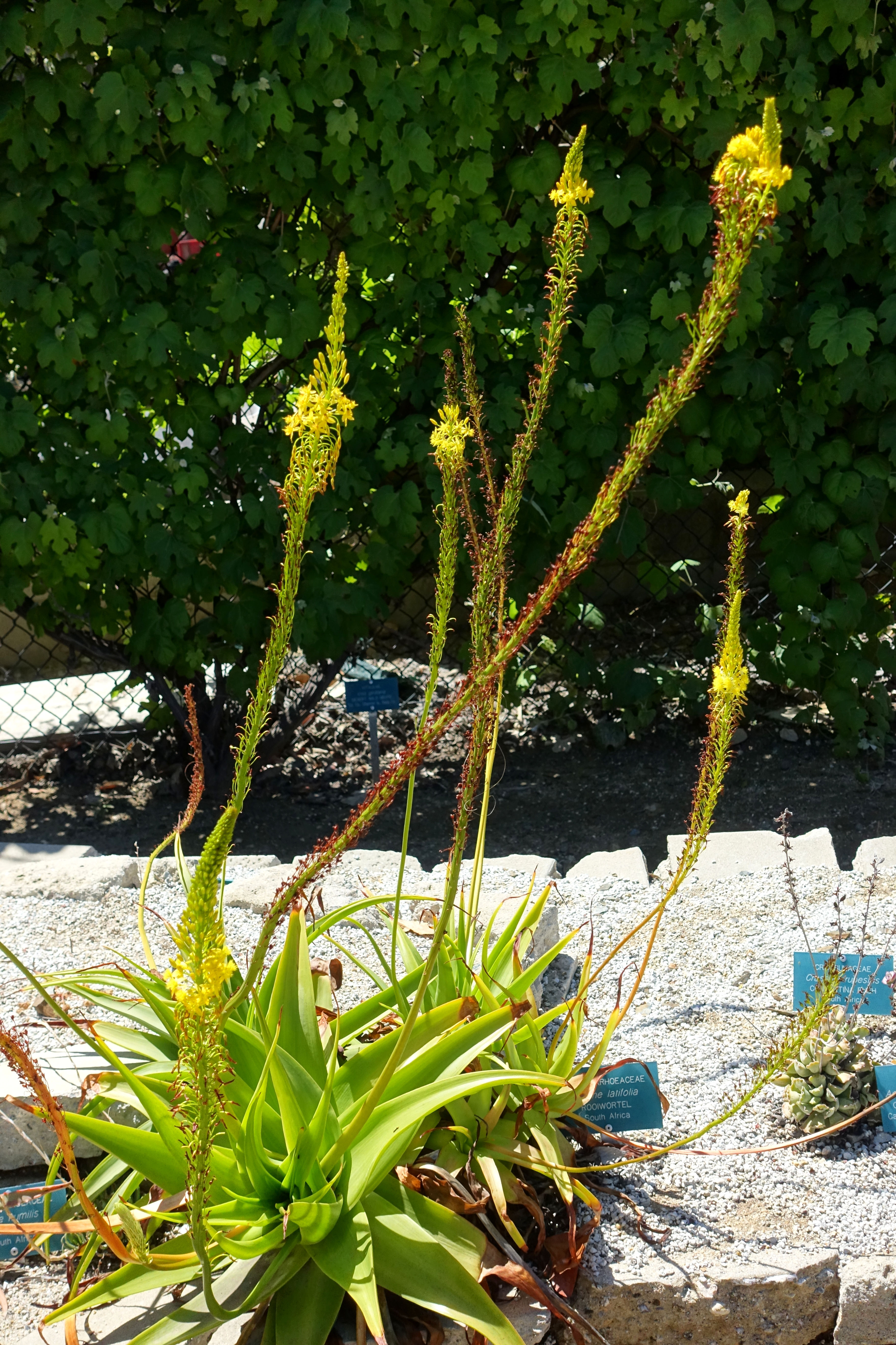 Botanical specimen in the Mildred E. Mathias Botanical Garden - University of California, Los Angeles - Los Angeles, California, USA.